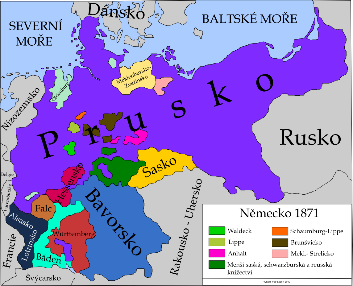 Map of Germany 1871.